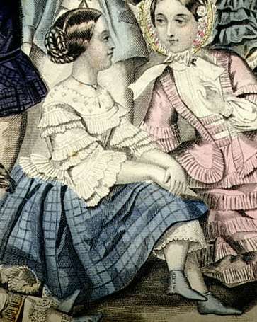 Girl's costume showing linen pantalettes. 1885